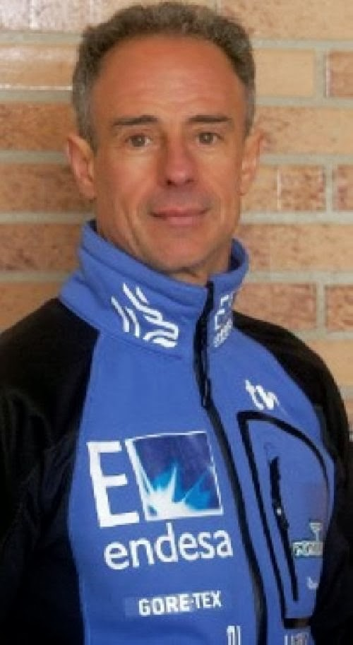 Nacho Orviz